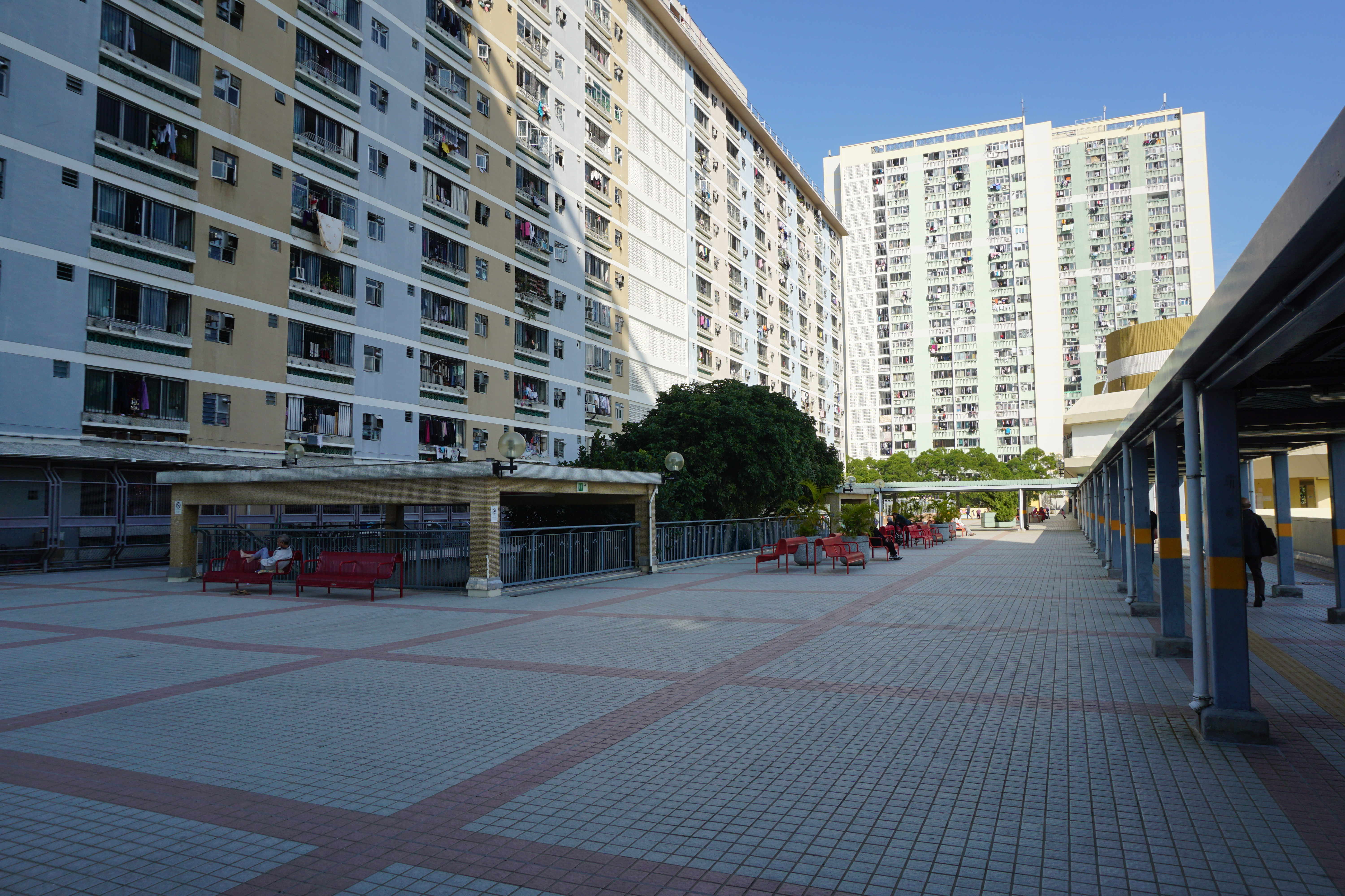 Cheung Shan Estate in Tsuen Wan, Hong Kong.